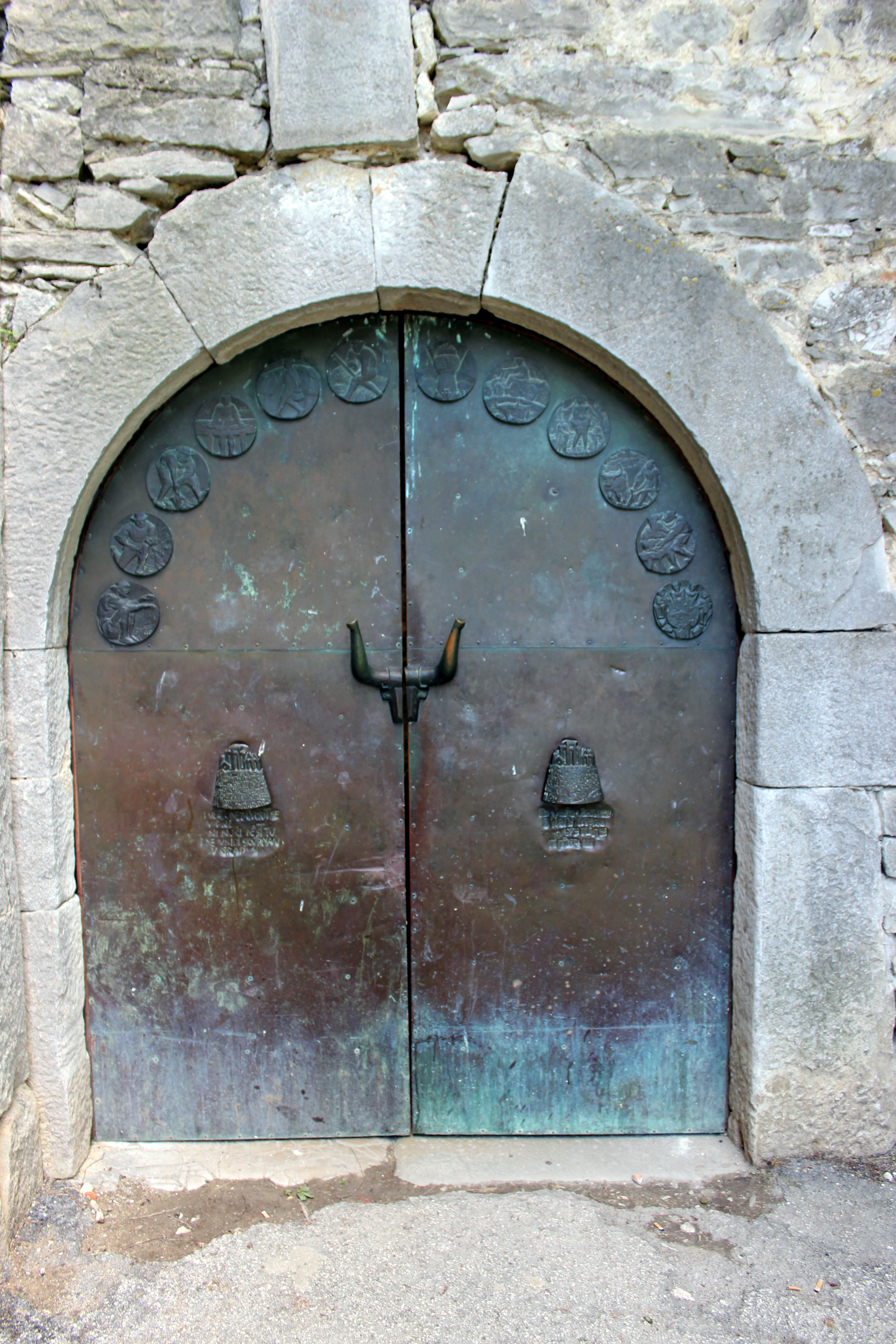 The copper wings (1981) of the main town gate (Glavna gradska vrata), view outside oft the town, in Hum, Croatia